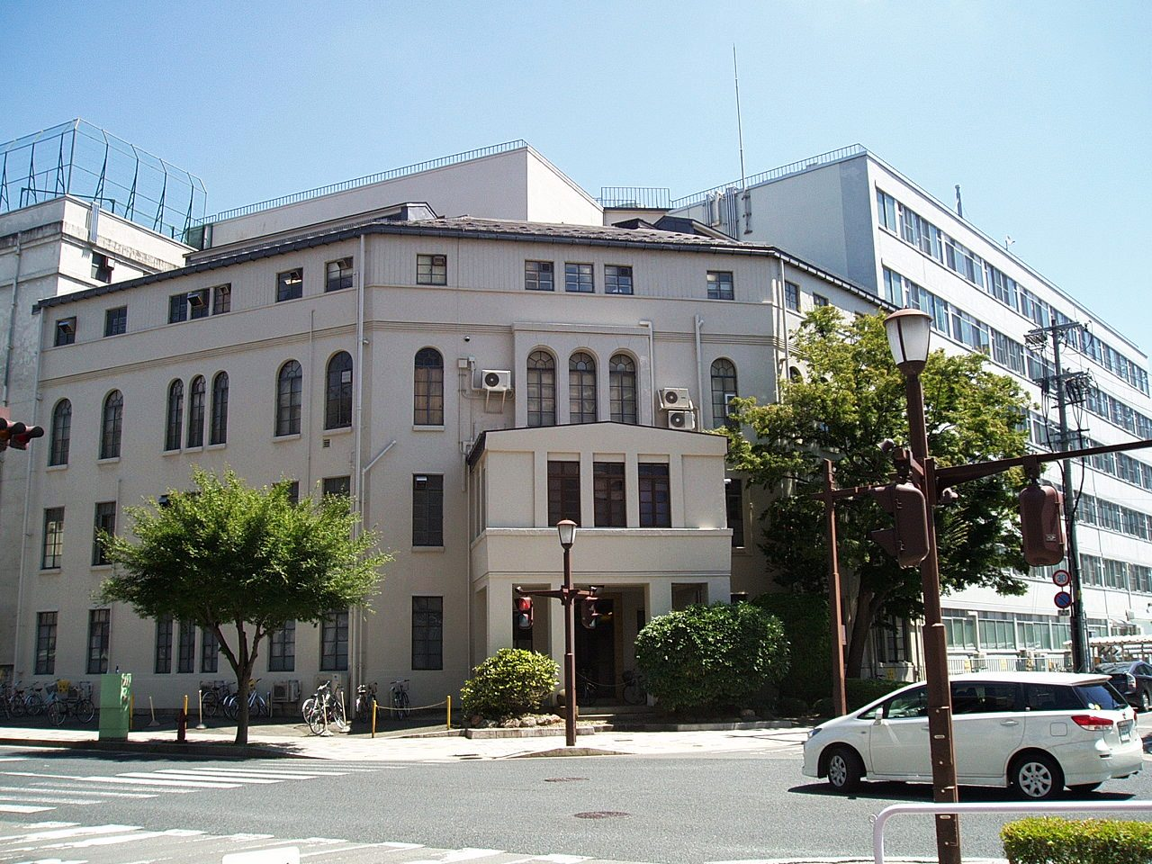 Main building in Uchimaru Campus, Iwate Medical University, located in Uchimaru, Morioka, Iwate, Japan.